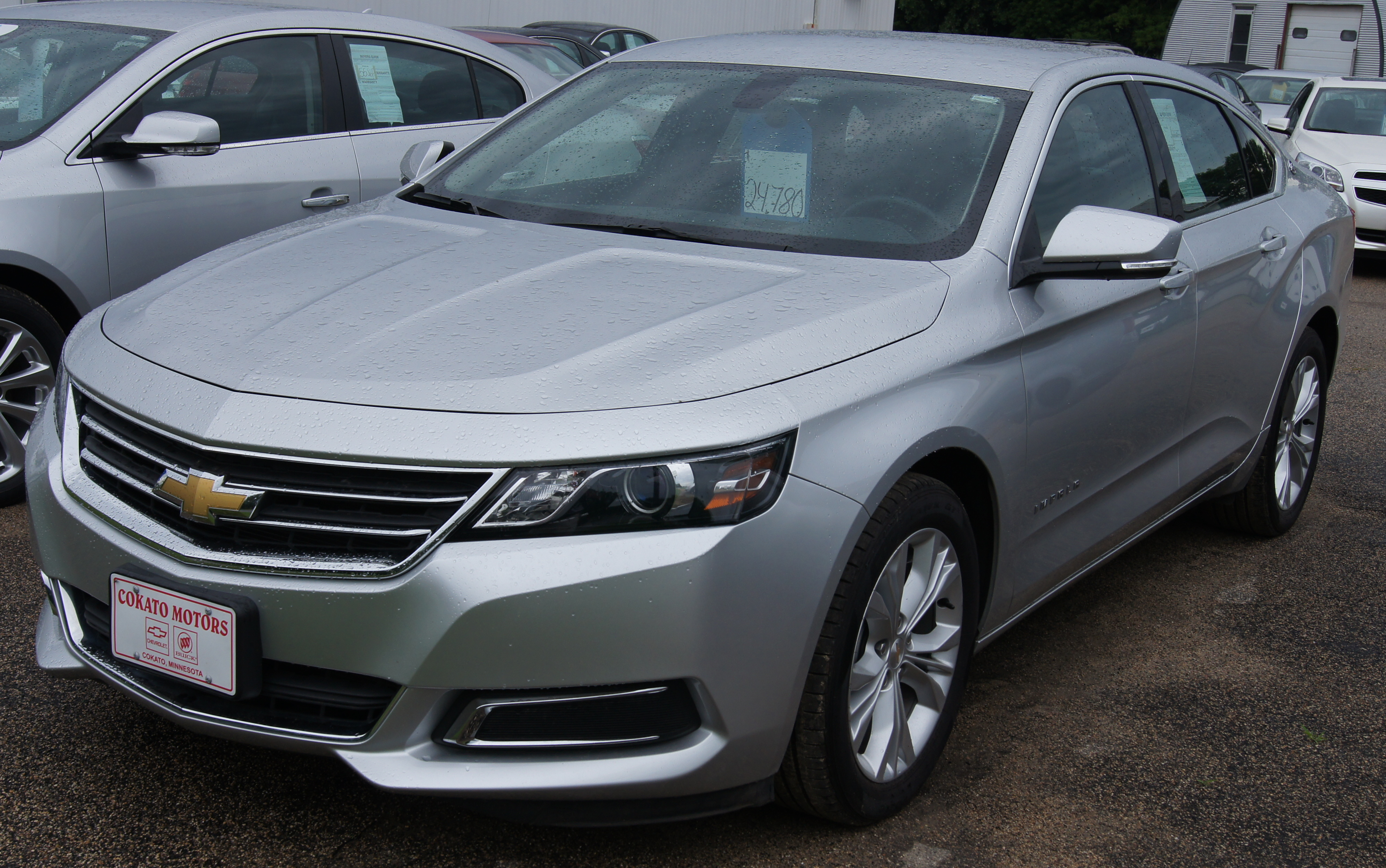 I bought my 2005 Dodge Magnum RT from Walser Chrysler Dodge in Hopkins. It came with free oil changes for life. I used to have relatives near the dealership that I would visit. They have all moved away, so now I just try to coordinate some car spotting for the trip. More Car Pictures